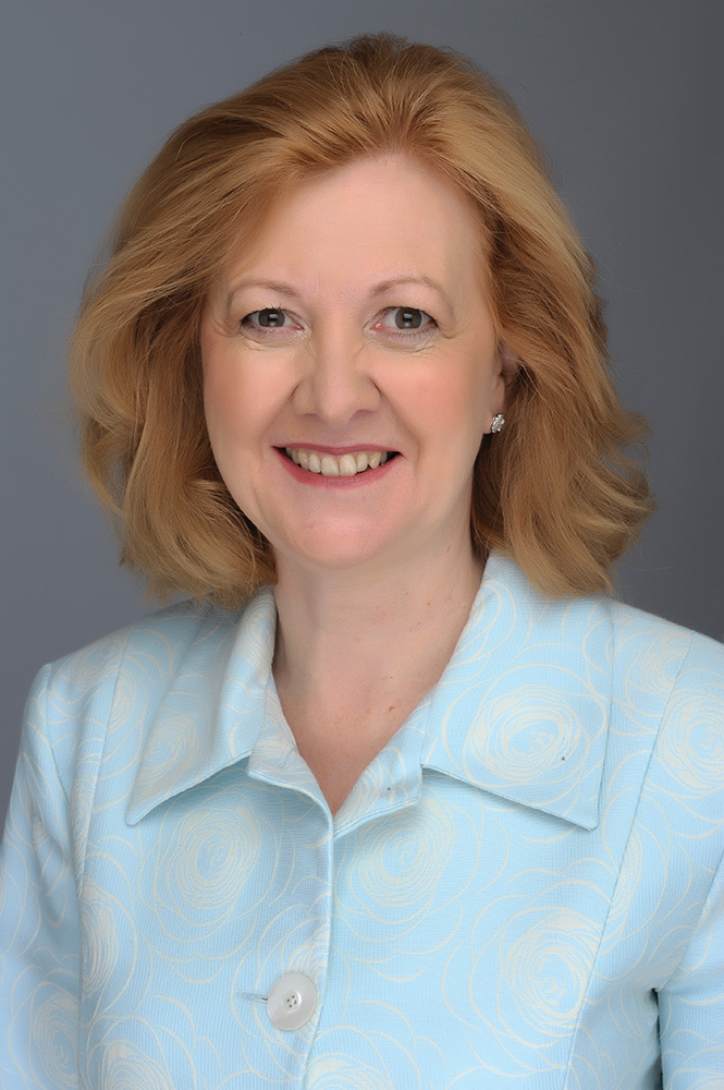 Victoria Barwick